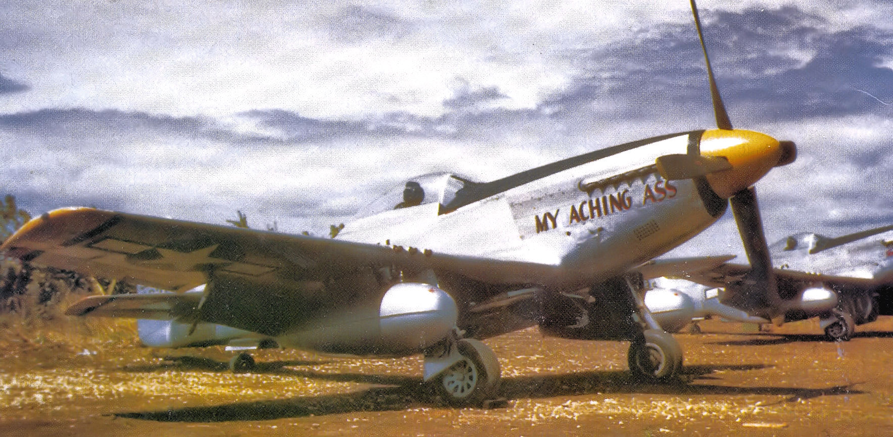 72d Fighter Squadron P-51 Mustang North Field Iwo Jima 1945